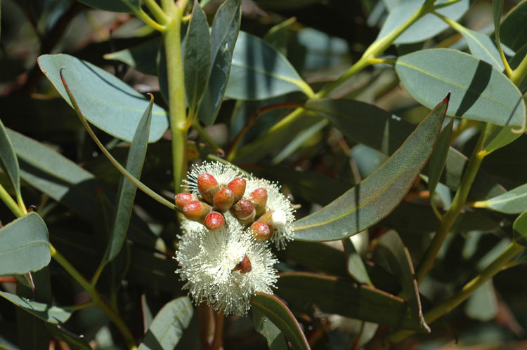 Flower buds and flowers of Eucalyptus uncinata in Burrendong Arboretum, near Wellington, New South Wales